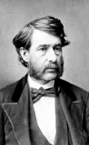 George Norman Barnard, albumen print, self portrait